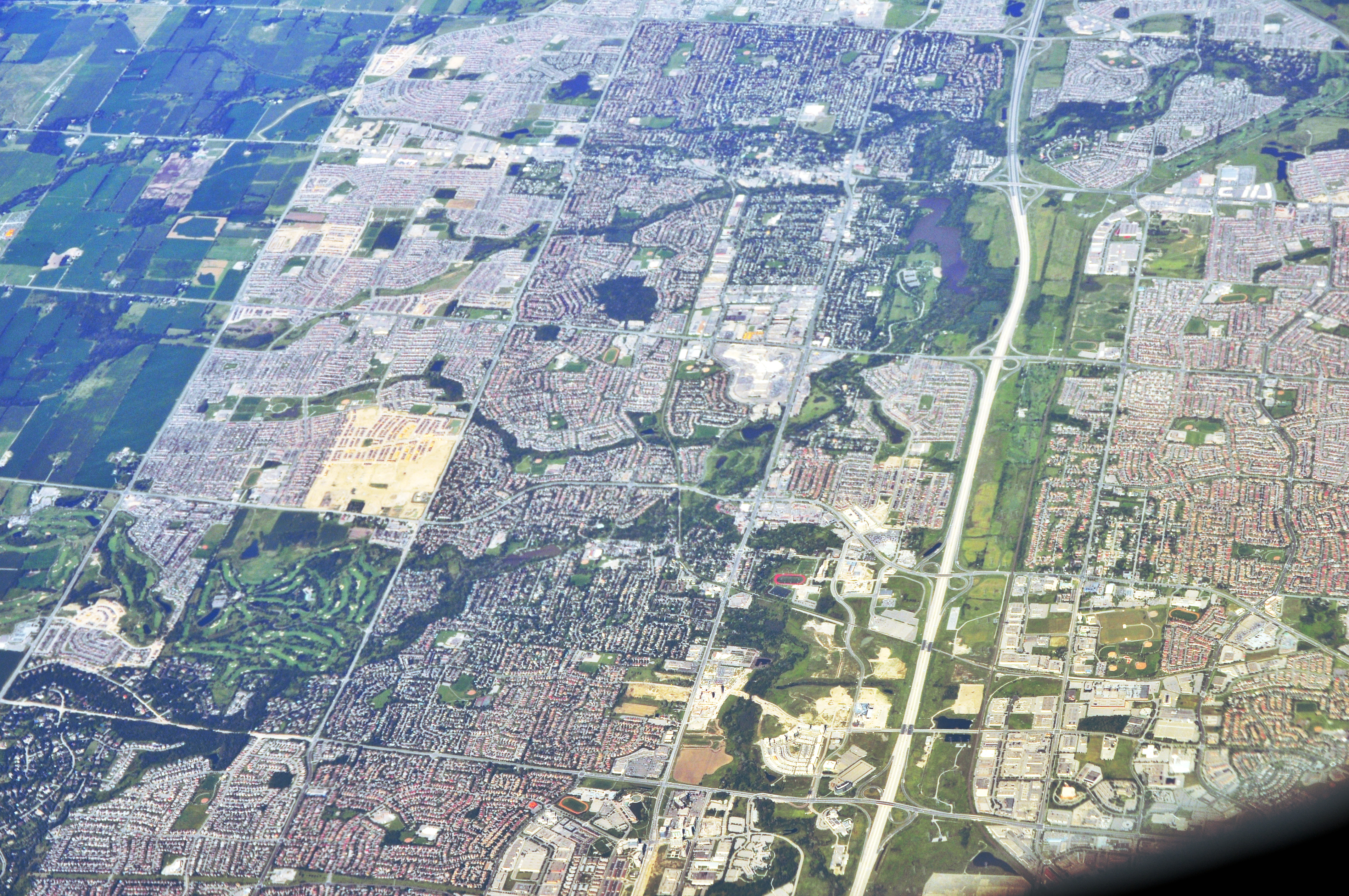 Aerial view of Ontario Highway 407 in Markham, Ontario from Warden Ave to Ninth Line.